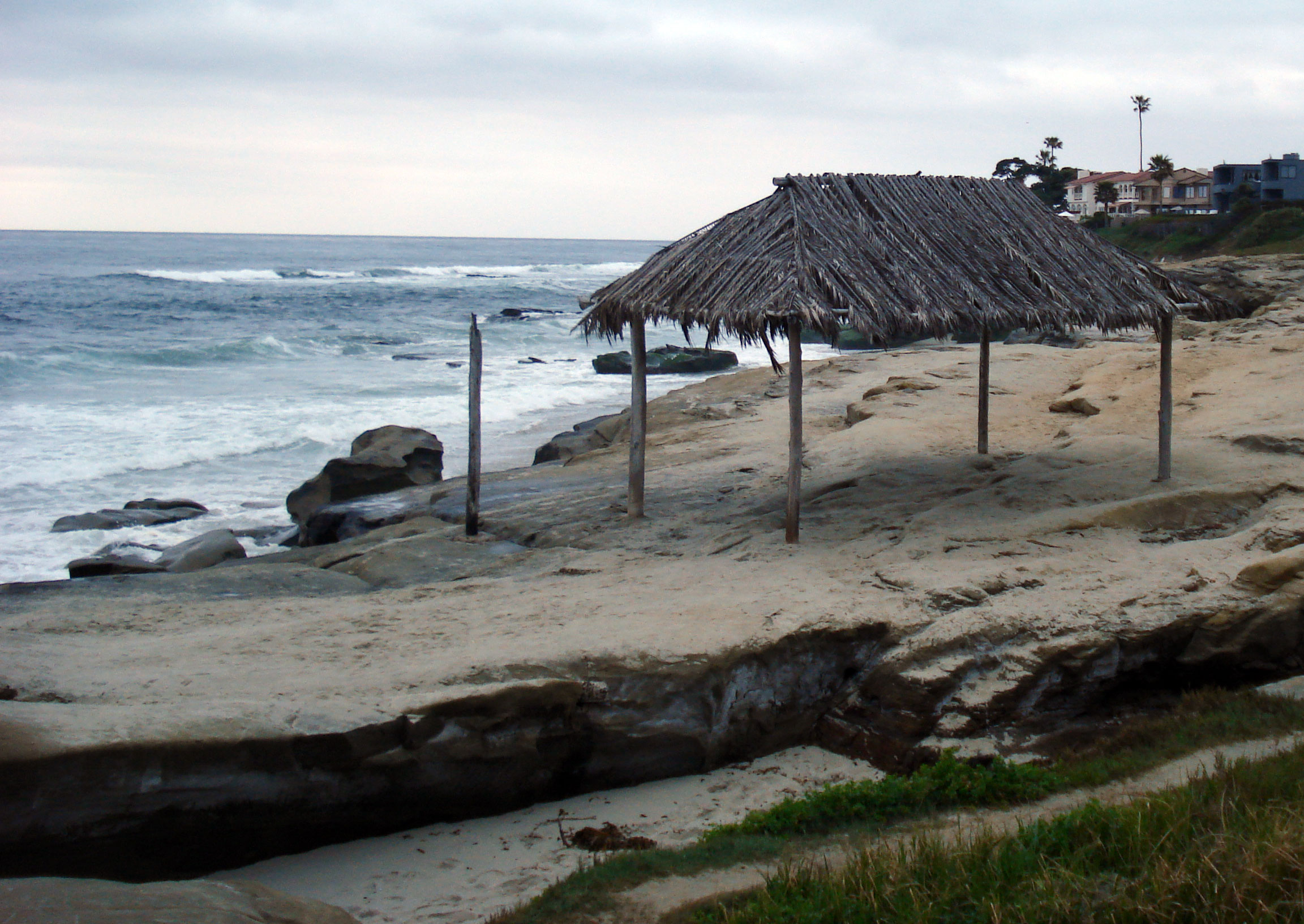 "The Surf Shack at Windansea Beach", historic landmark in La Jolla (San Diego), California, USA